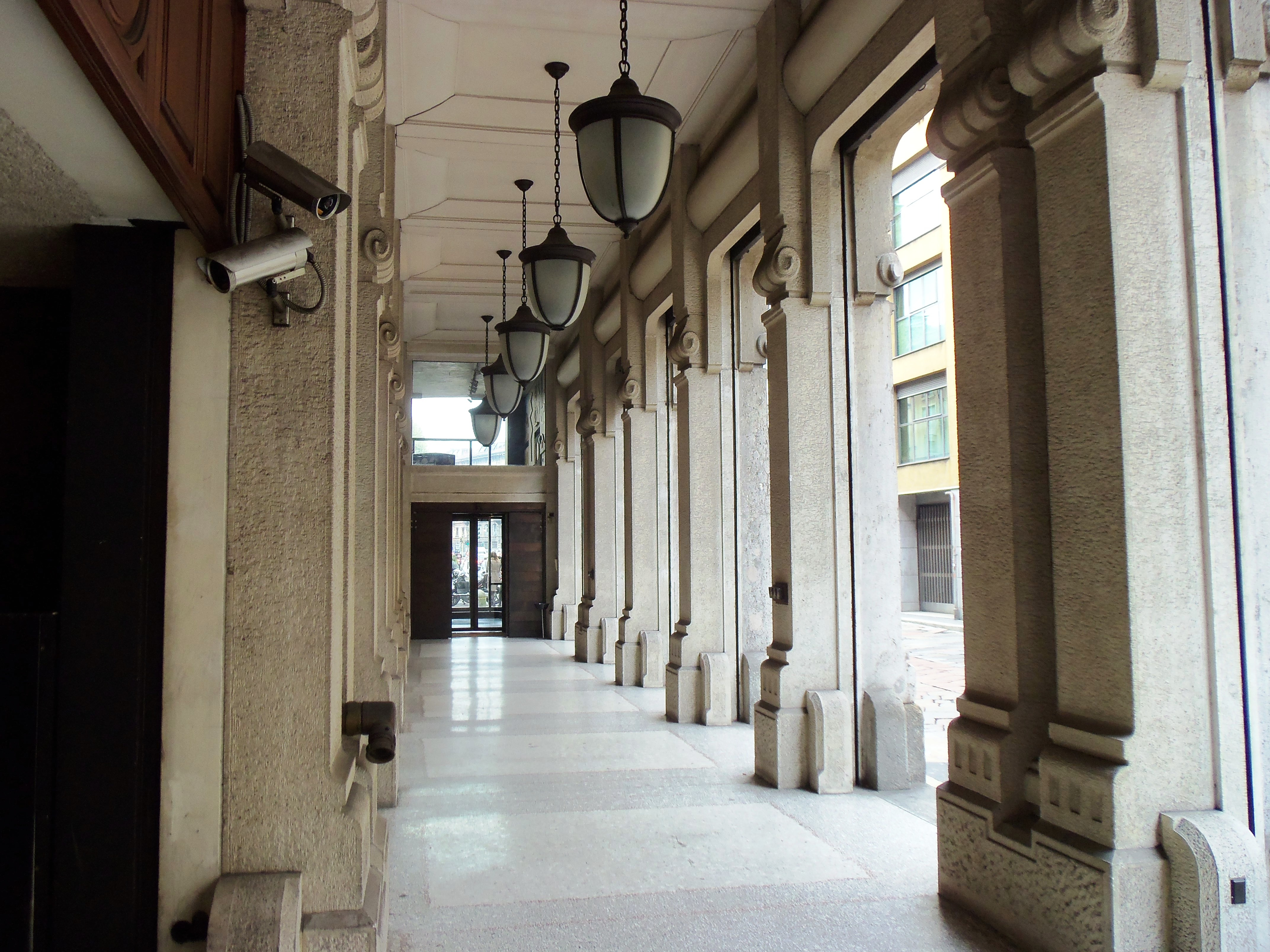 Milano, via Pontaccio. The elegant "portico" of Maison Ferré